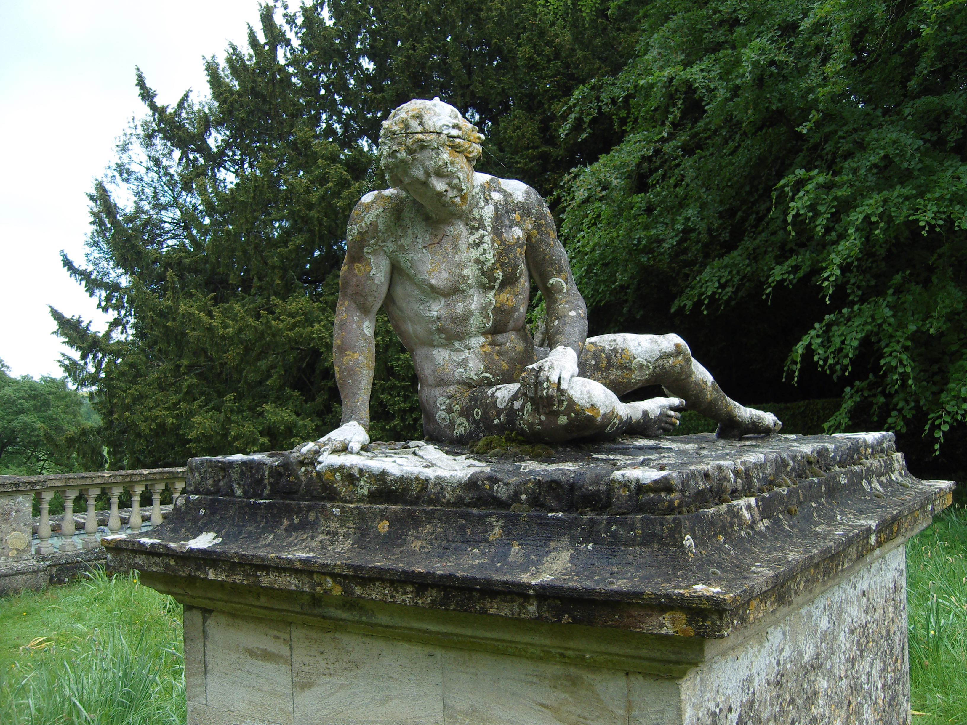 Statue of a dying gladiator in Rousham Park, based on the Dying Gaul in Rome